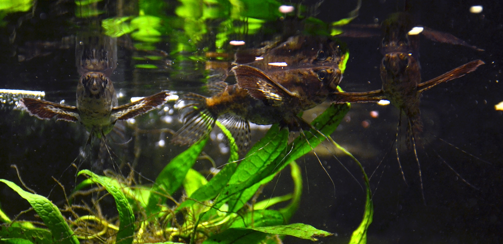 African butterflyfishes ( Pantodon buchholzi ) in Cologne Zoo.